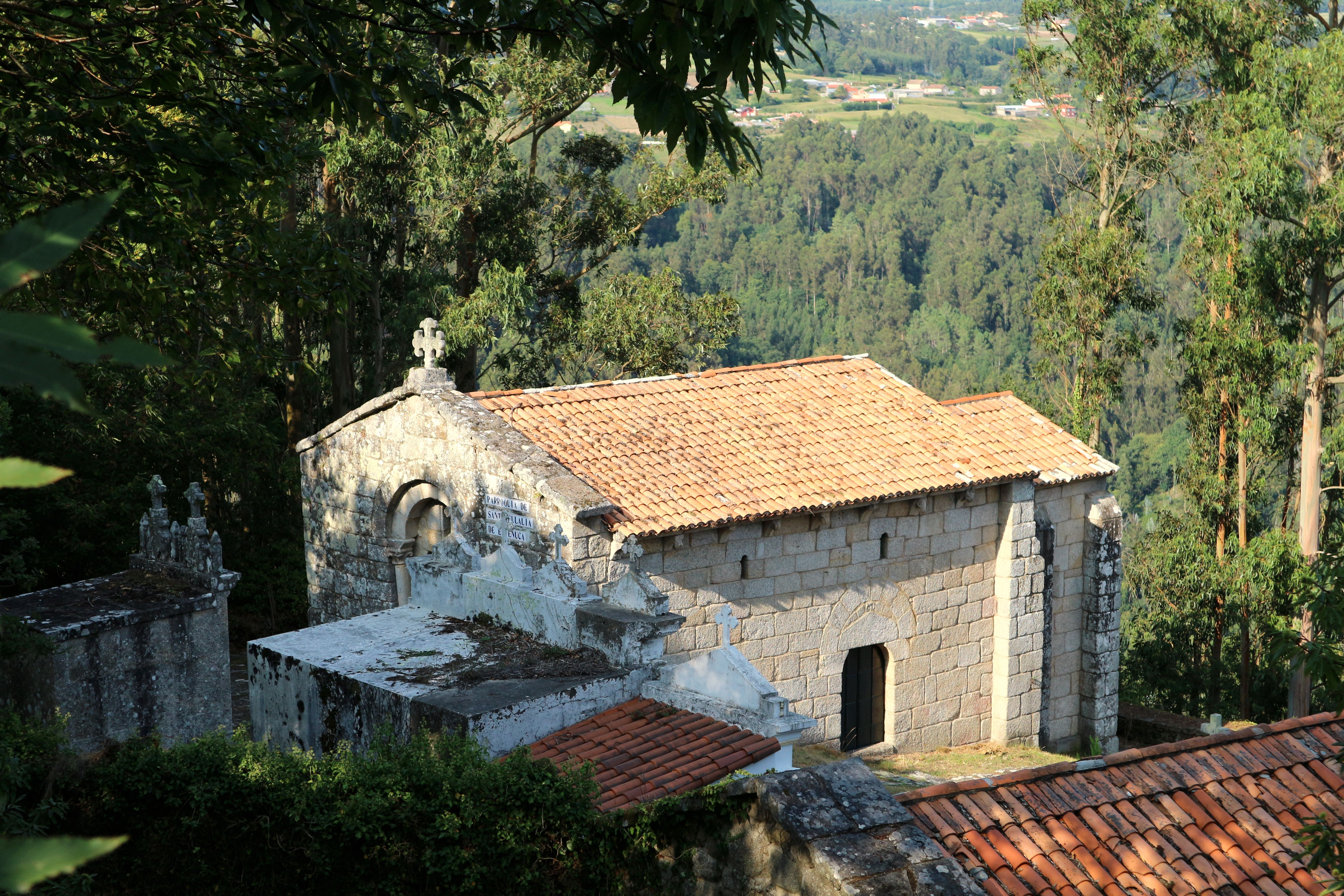 A Espenuca, Coirós (A Coruña)